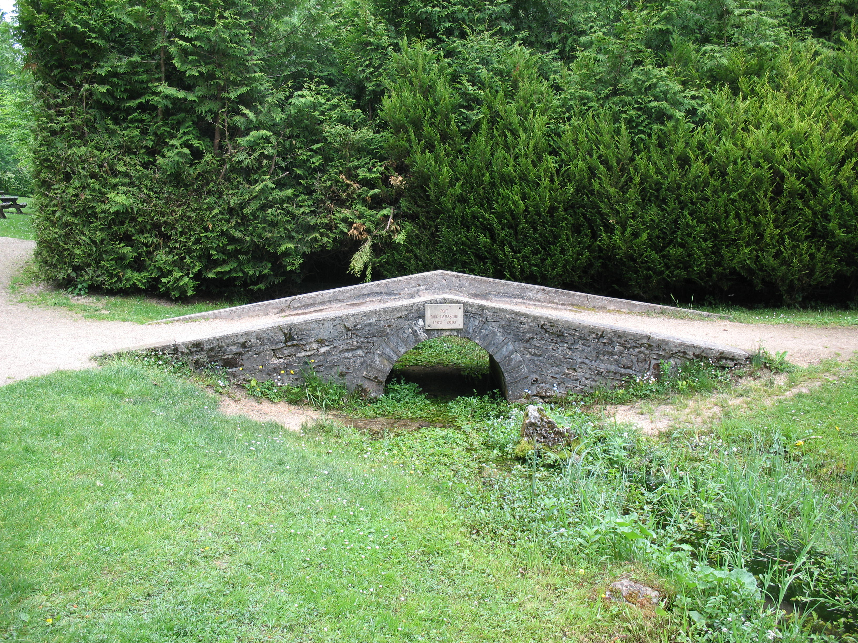 Bridge Paul-Lamarche, the 2nd bridge over the river Seine, seen from upstream.